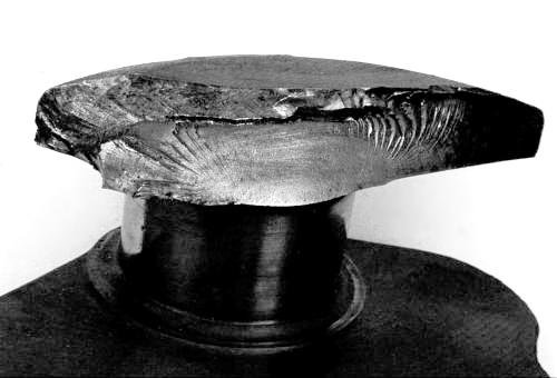 image of fatigue of material